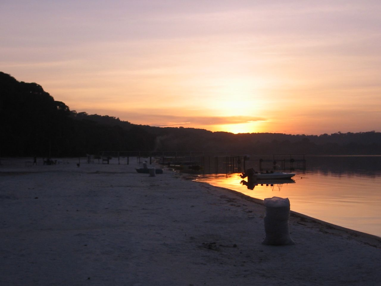 Sunset over Bugala Island, Ssese Islands, Uganda.